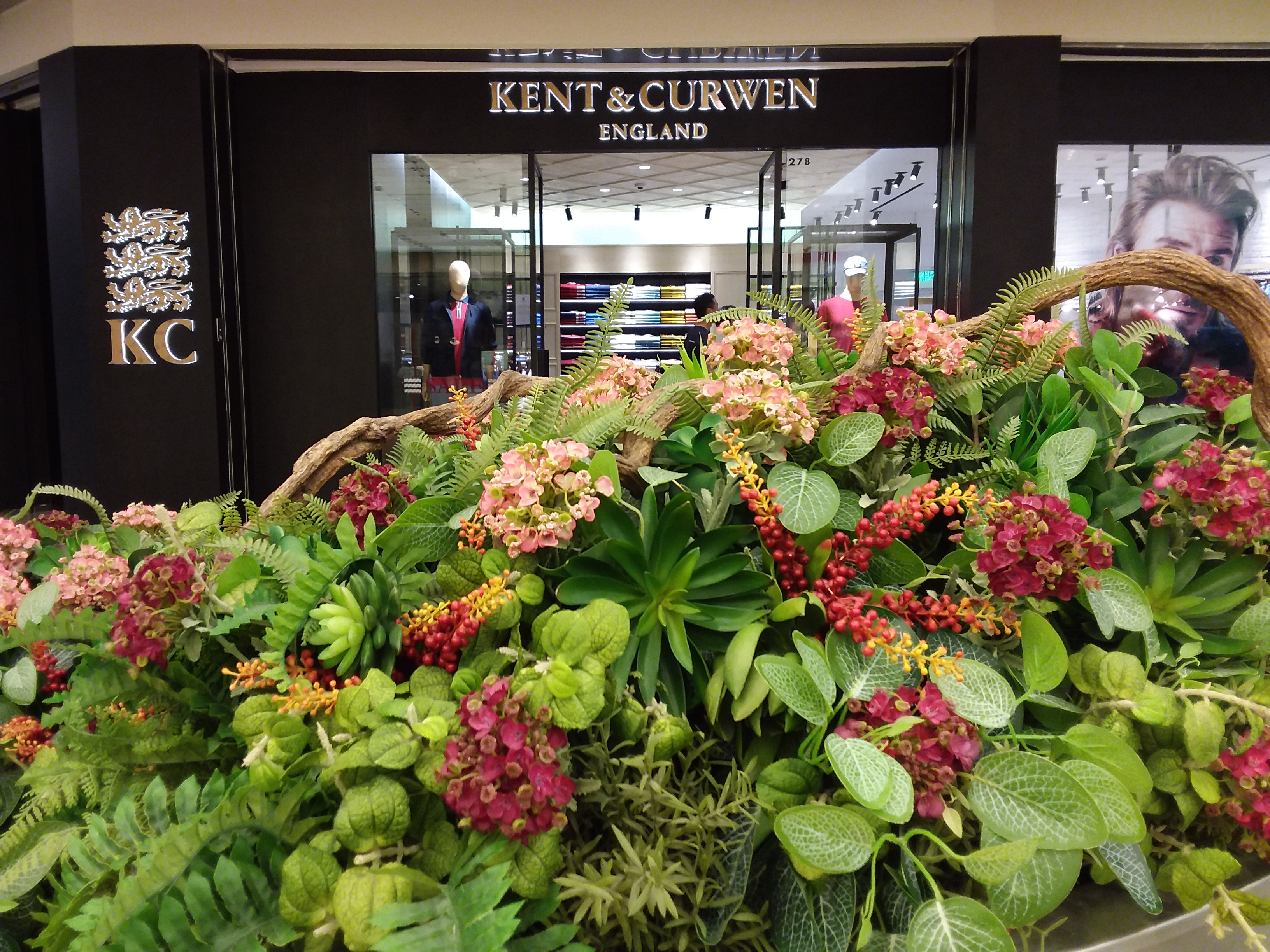 SZ 深圳 Shenzhen 羅湖區 Luohu 華潤萬象城 MixC mall in August 2018